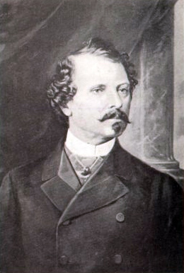 Capitan Mayne Reid in 1863, from an oil painting. Published in Reid, Elizabeth Hyde. Captain Mayne Reid: His Life And Adventures. London: Greening, 1900.